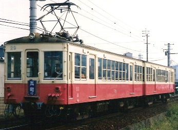 Takamatsu-Kotohira Electric Railroad No 29 at Yashima